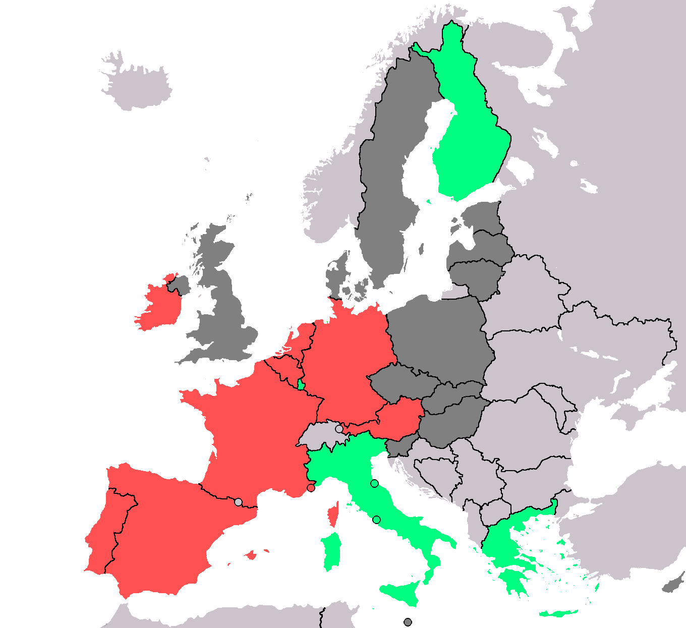 Where states was minting 2euro coin in the year 2004